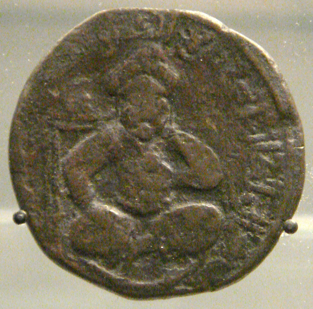 Coin of Saladin_1190_mint_of_Mayyafariqin